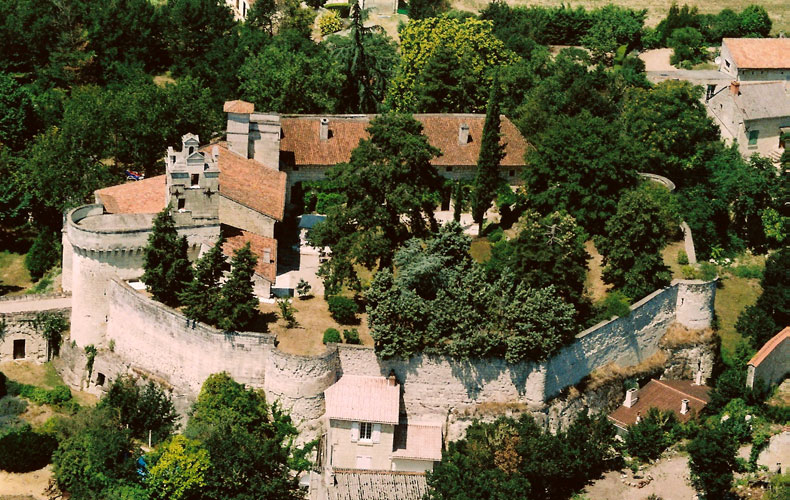 Photo of Chateau de Ranton in the Loire